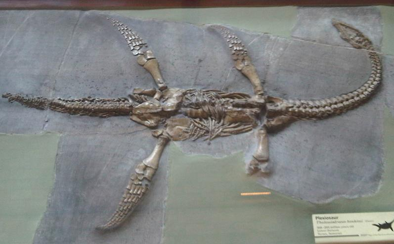 Thalassiodracon hawkinsi reconstruction at the Natural History Museum in London.